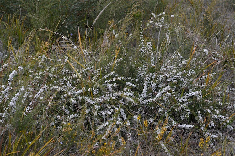 Philotheca virgata at Coles Bay Conservation Area near Coles Bay, Tasmania